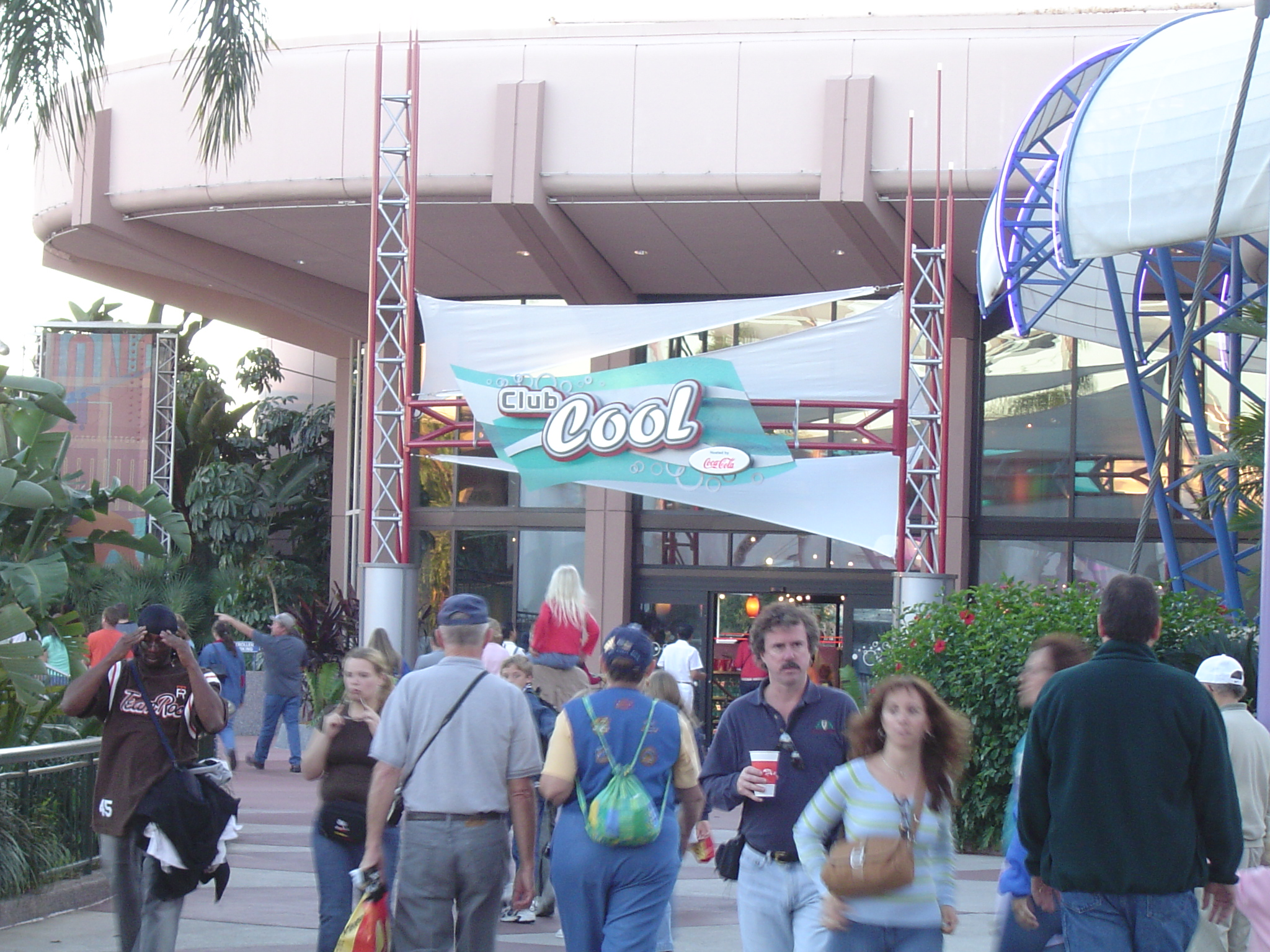 me